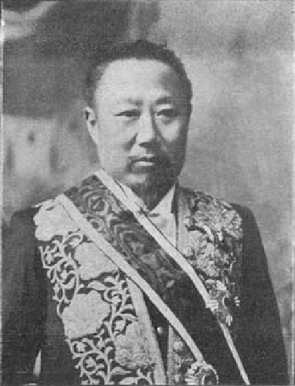 Lee Jae-wan Portrait